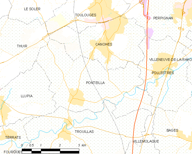 Map of French municipality